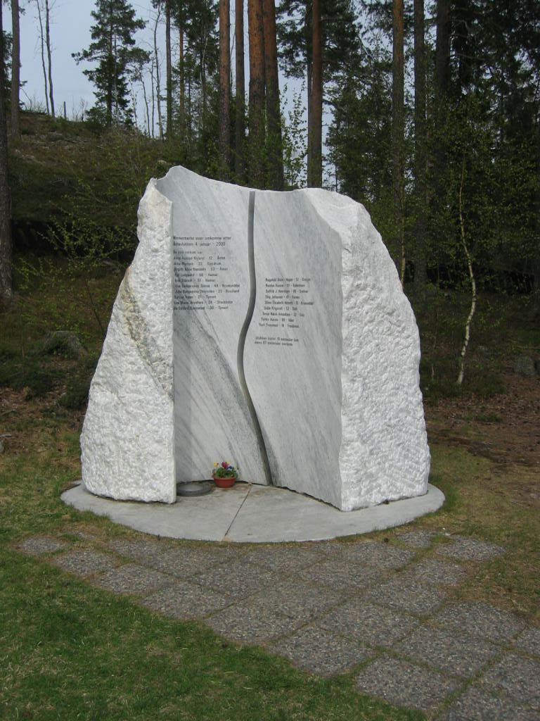 Memorial stone of the Åsta train accident, with the names of the 19 people who died in the accident.